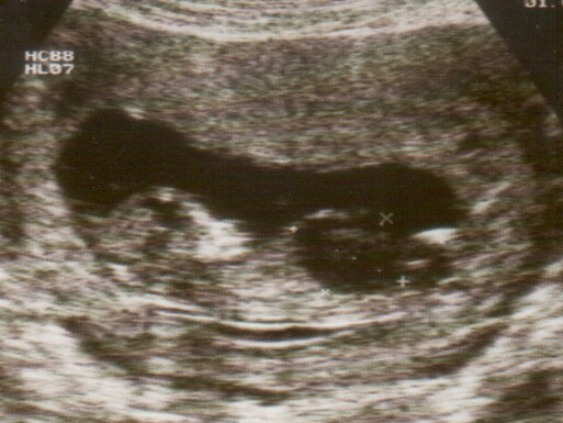 Ultrasound scan. Giant bladder or Megacystis.Megacystis is listed as a rare disease by the Office of Rare Diseases (ORD) of the National Institutes of Health (NIH), which means it affects fewer than 200,000 people within the U.S.